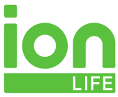 Logo for Ion Life